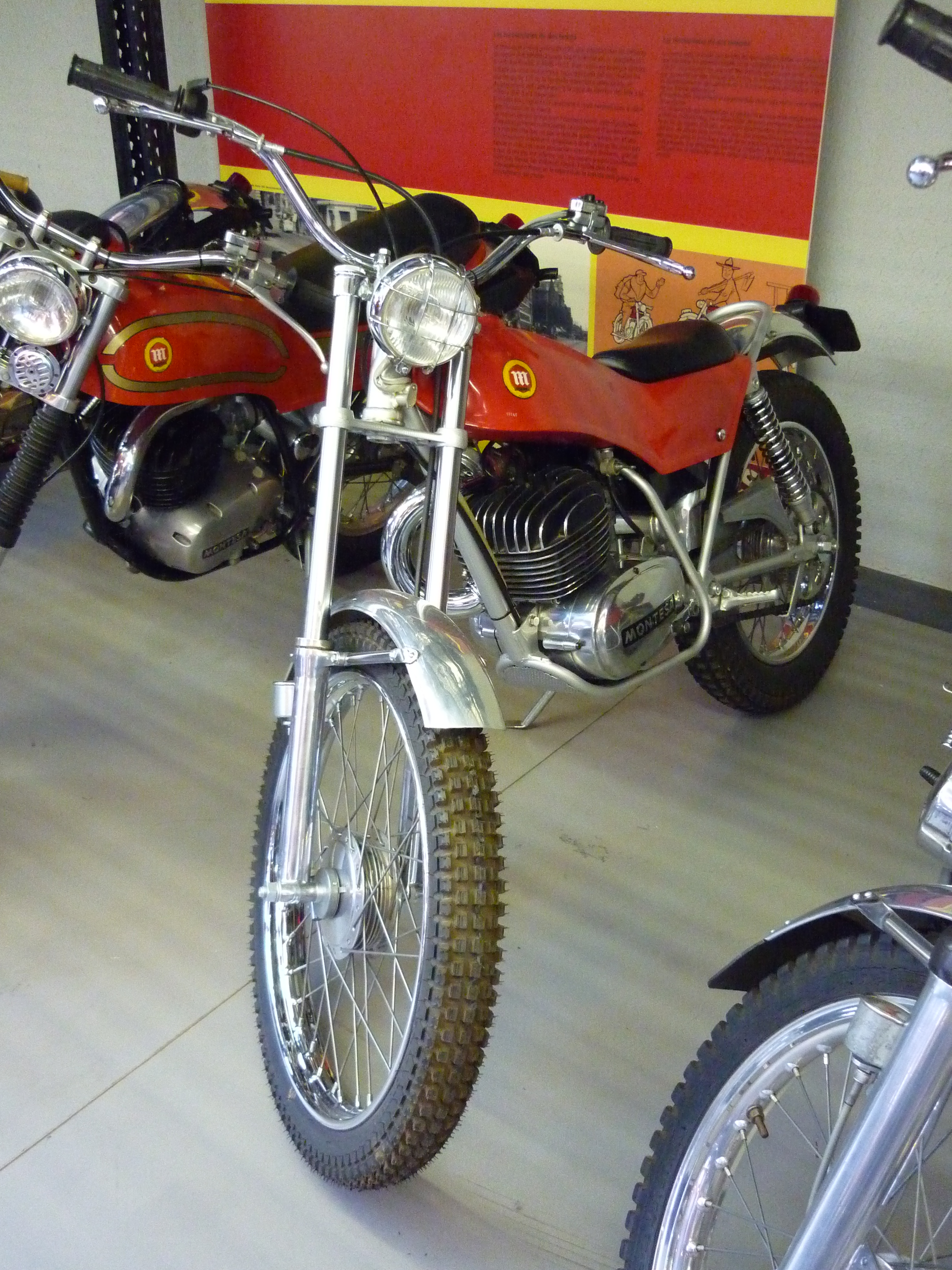 Montesa Cota 123 (around 1972)